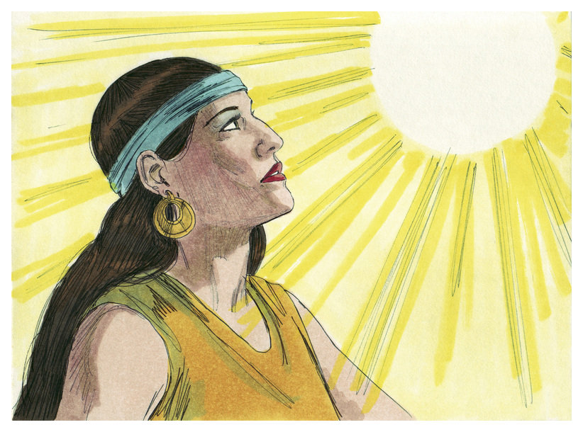 Biblical illustration of Book of Genesis Chapter 25